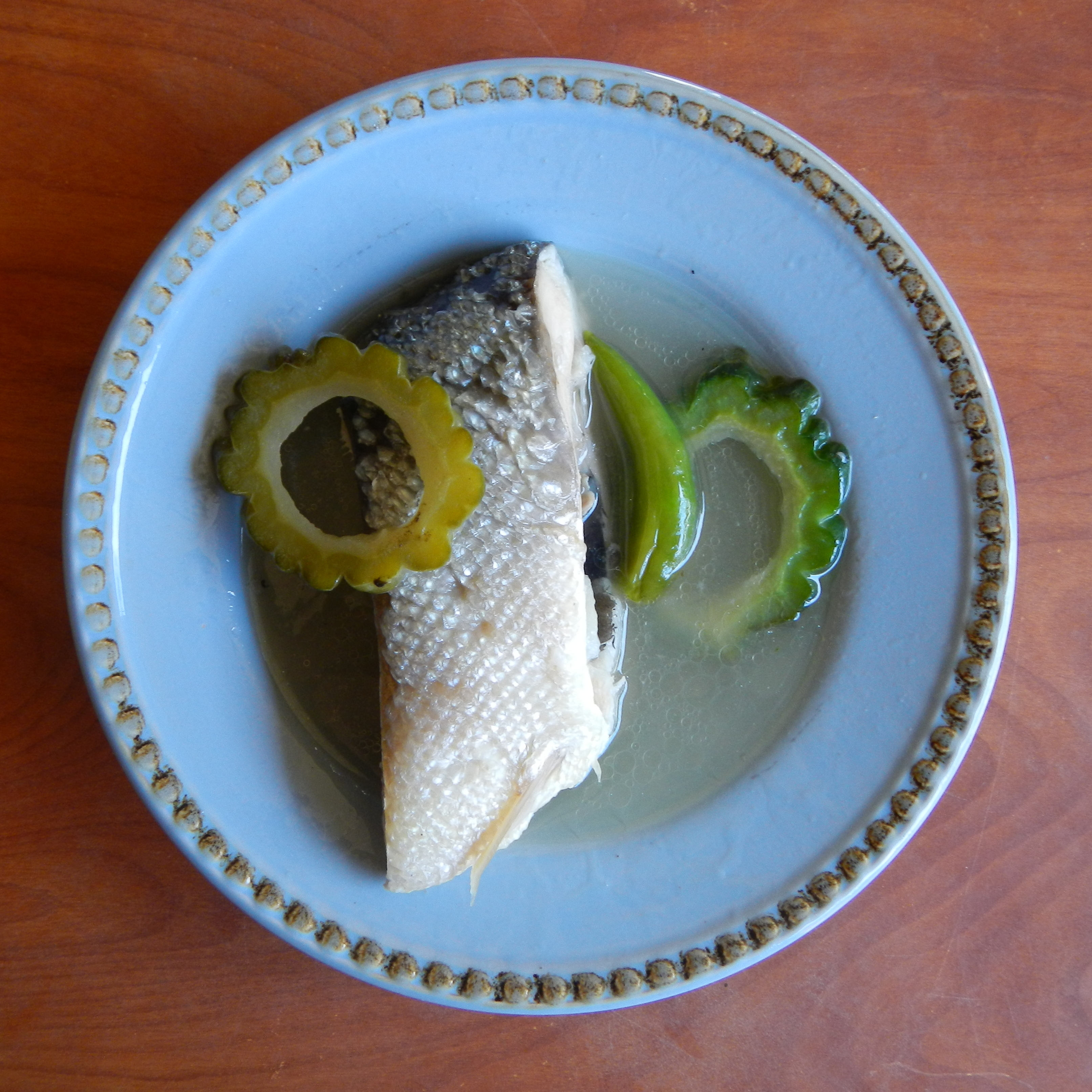 Paksiw na bangus[1]